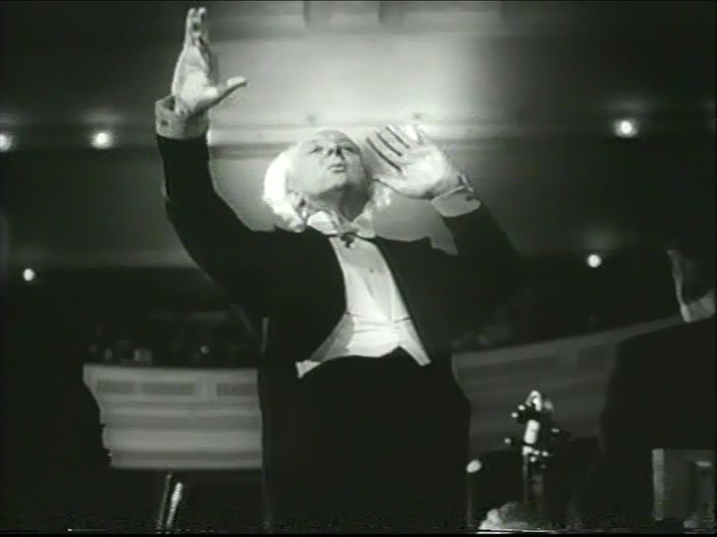 Leopold Stokowski from "Carnegie Hall".